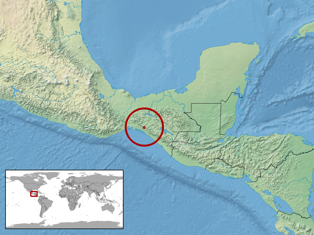 geographic distribution of Abronia ramirezi (Native: Mexico)